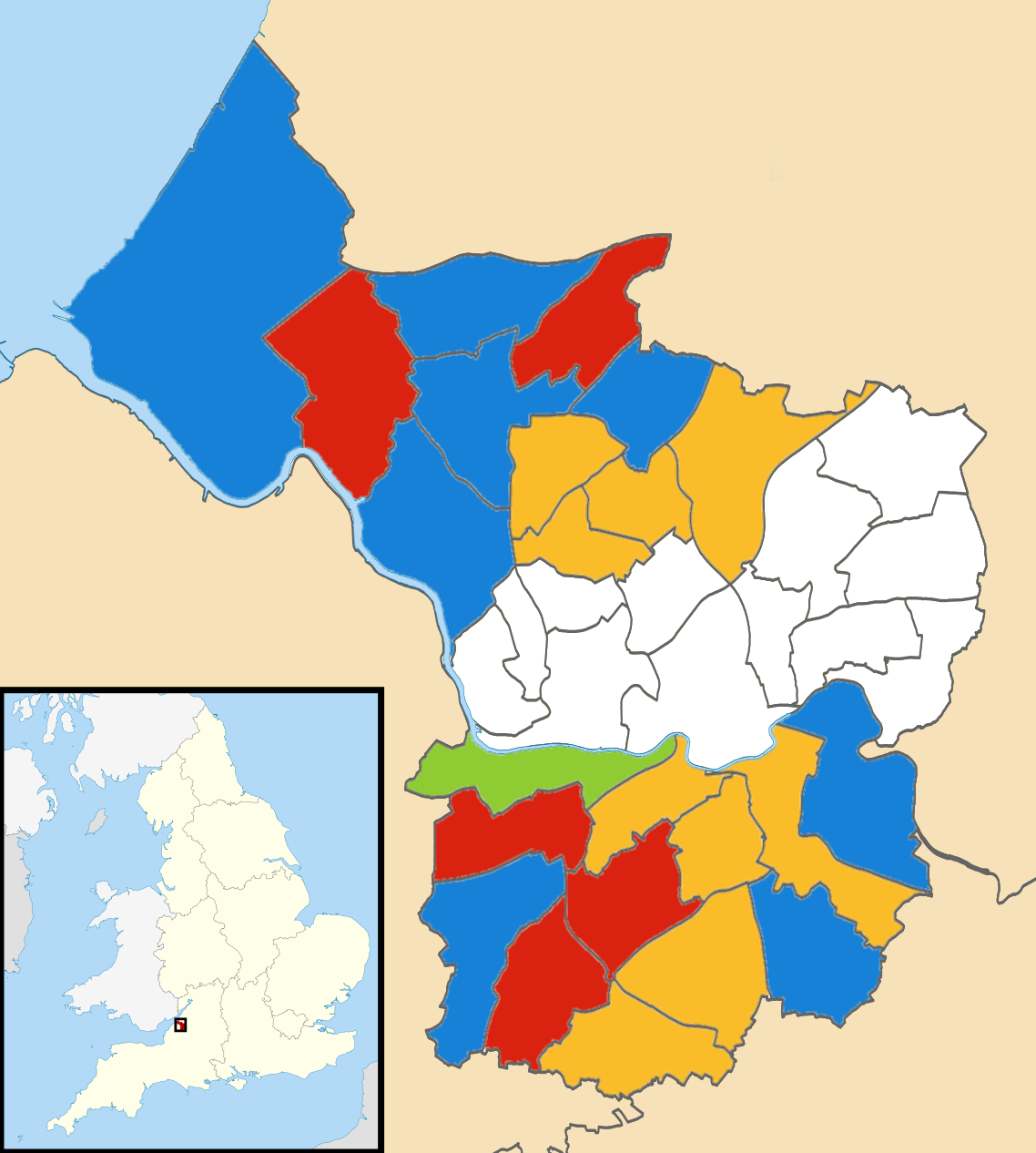 Results of the 2006 local elections in Bristol Colours: Conservative Labour Liberal Democrat Green party of England and Wales No election in 2006